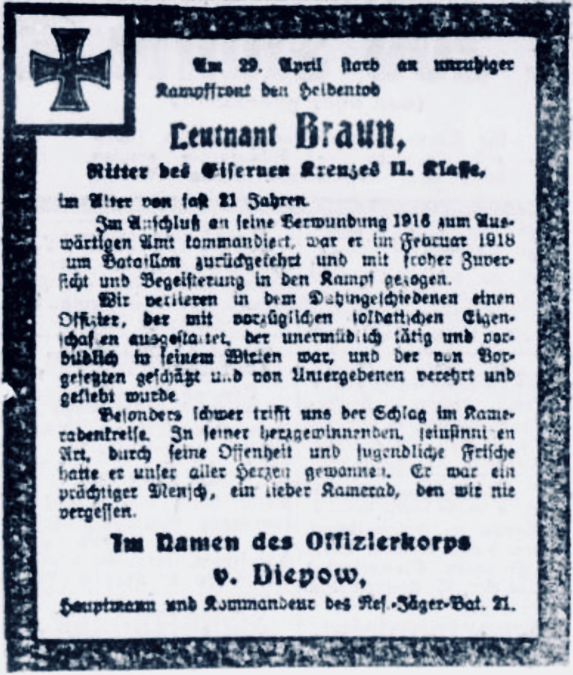 Obituary. Vossische Zeitung, morning edition, 7 May 1918. Transcription: „On April 29 Lieutenant Otto Braun, Knight of the Iron Cross II, died on troubled battle front a heroic death at the age of almost 21 years. Abandoned to the Foreign Office in 1916 following his wounding, he returned to the battalion in February 1918 and entered the battle with joyful confidence and enthusiasm. We lose an officer endowed with excellent soldierly qualities, who worked tirelessly and exemplary in his work, and who was esteemed by superiors and worshiped and loved by subordinates. We are particularly hard hit by the blow in the circle of comrades. In his heart-winning, subtle way, by his openness and youthful freshness he had won all our hearts. He was a magnificent man, a dear comrade whom we never forget. In the name of the officer corps, von Diepow, captain and commander of the 21st Reserve Jäger-Bataillion“. (see: Jäger (infantry))